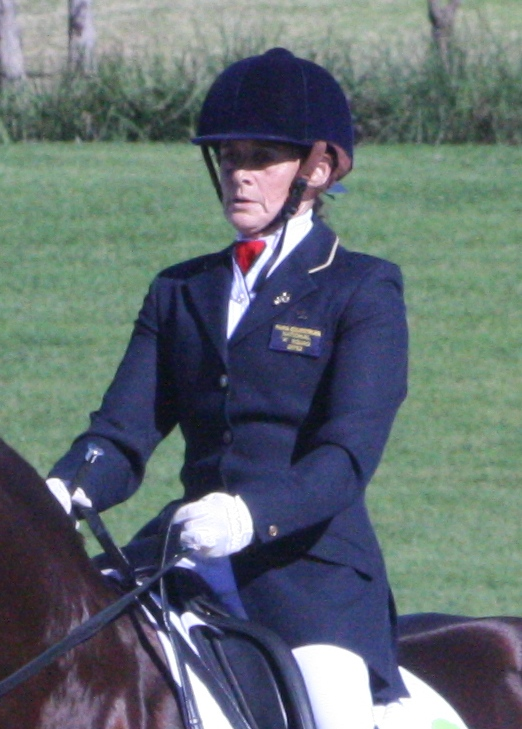 Australian equestrian Joann Formosa, Australian Paralympic athlete. Field action photo circa 2012